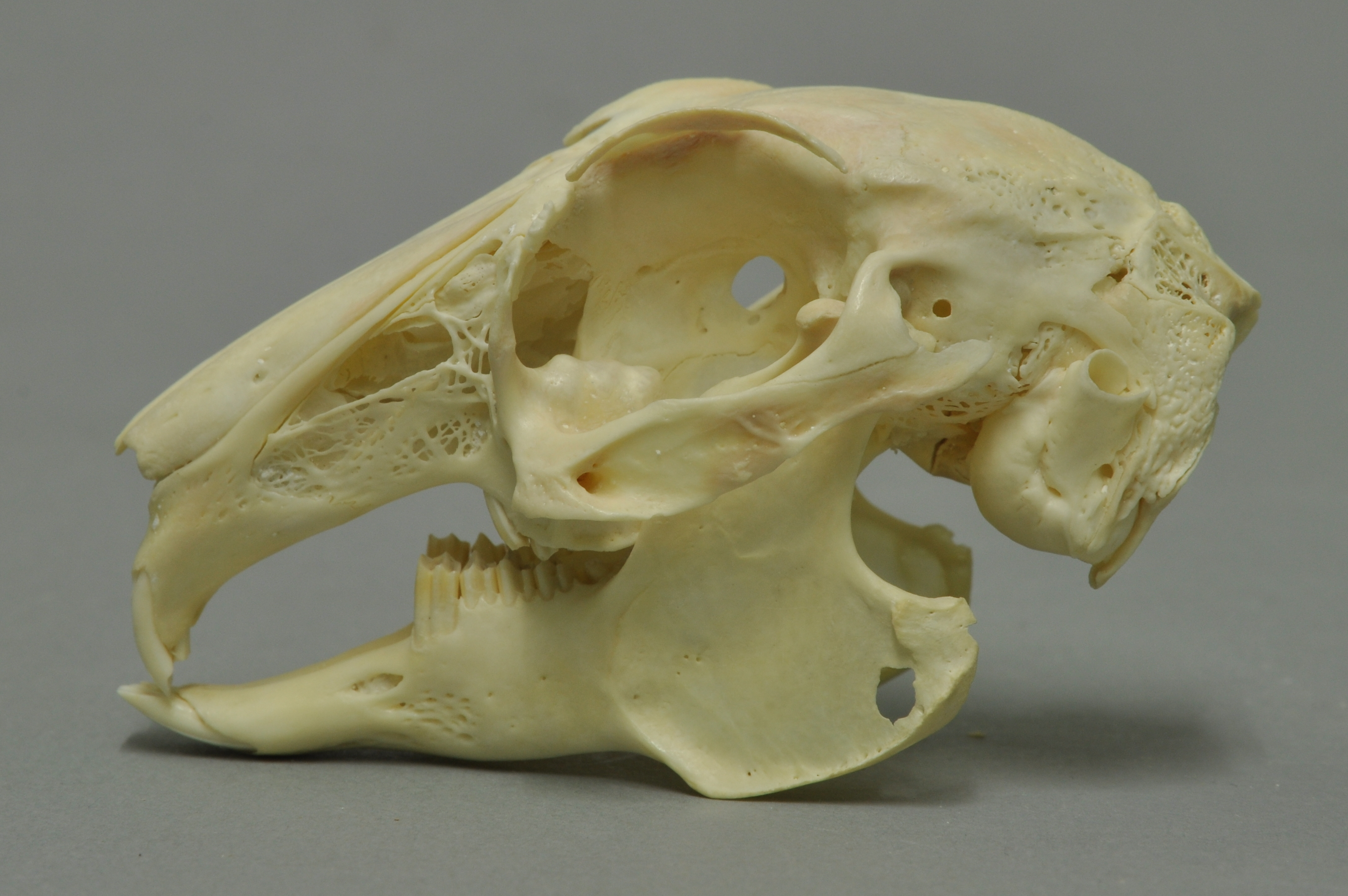 European rabbit, skull, Coll. Museum Wiesbaden